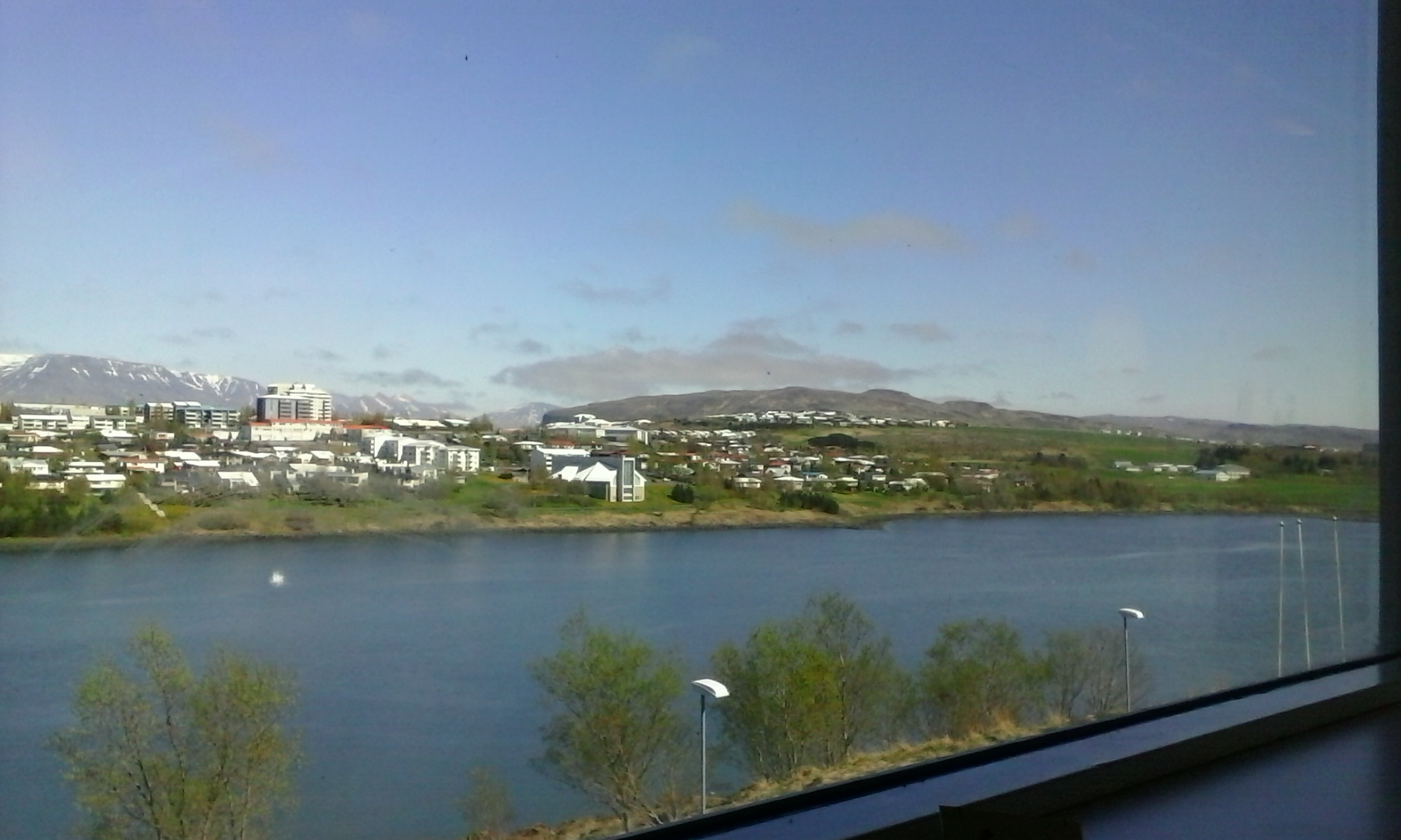 Grafarvogur, Reykjavík, Iceland